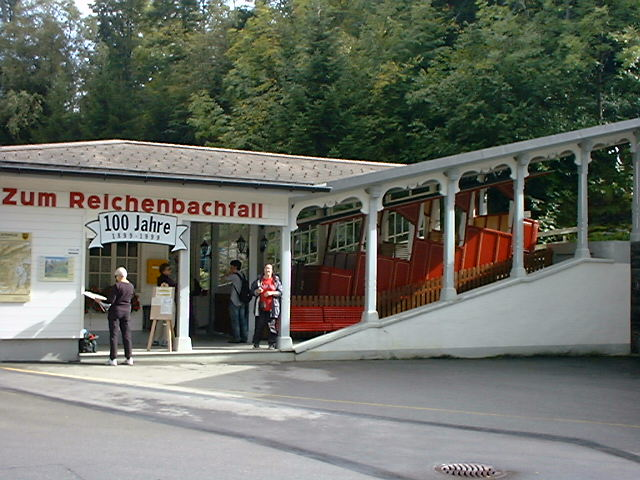 The Reichenbachfall-Bahn which takes you to the terrible Reichenbachfall.